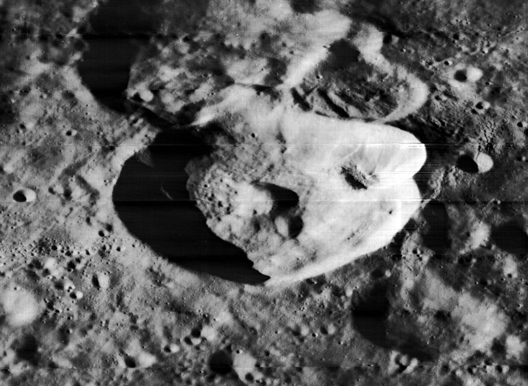 Oblique view of Virtanen, on the far side of the moon. North at top.